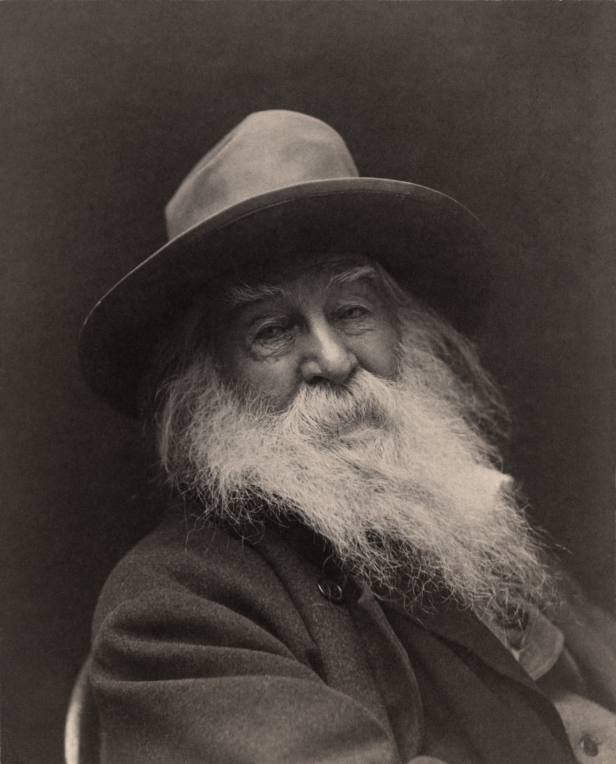 American poet Walt Whitman. This image was made in 1887 in New York, by photographer George C. Cox. The image is said to have been Whitman's favorite from the photo-session; Cox published about seven images for Whitman, who so admired this image that he even sent a copy to the poet Tennyson in England. Whitman sold the other copies.[1]